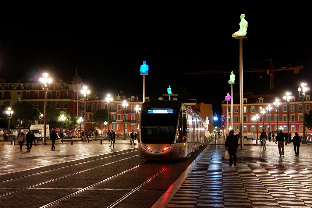 Place Massena by night